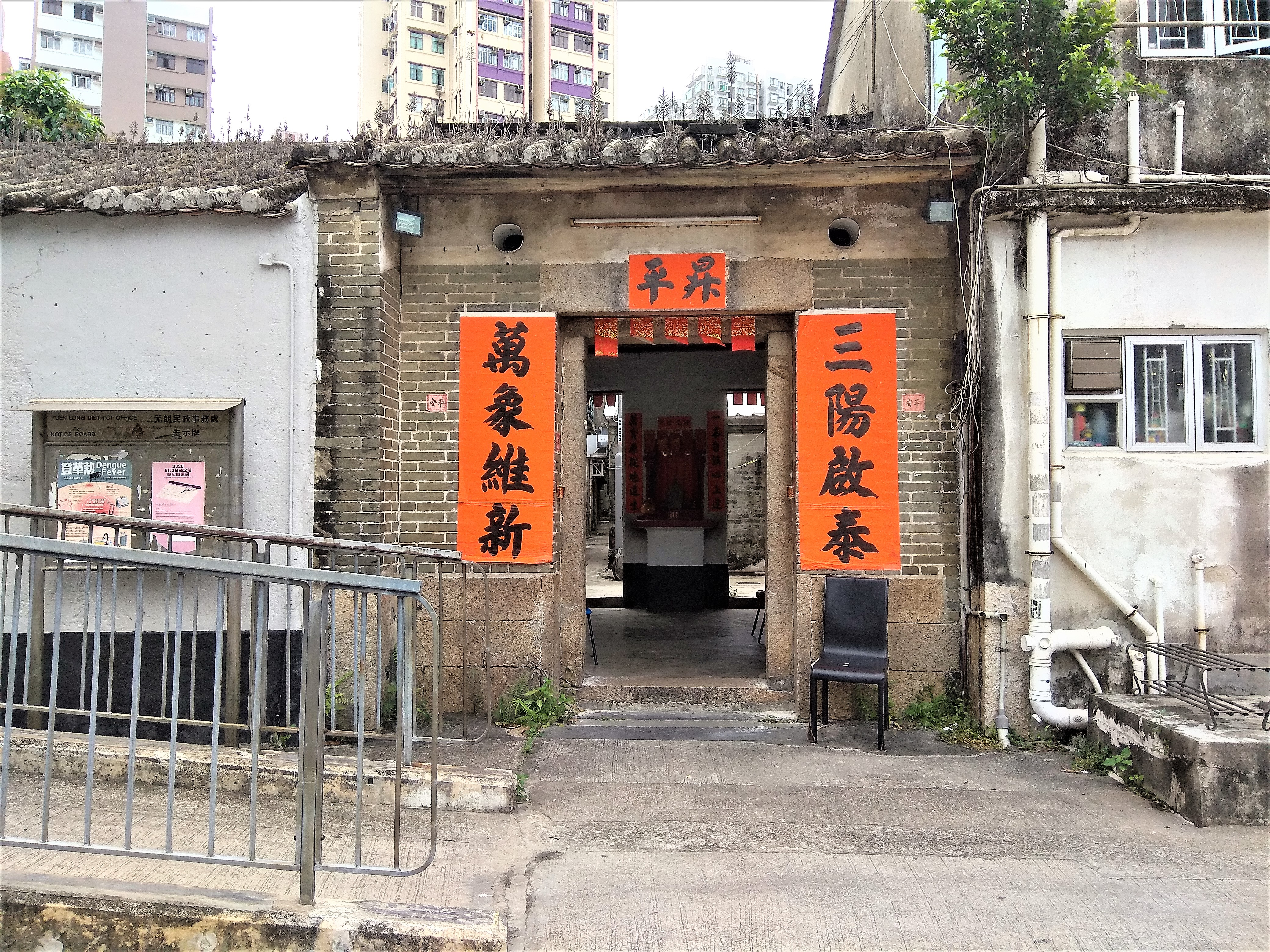 Tai Kiu Tsuen